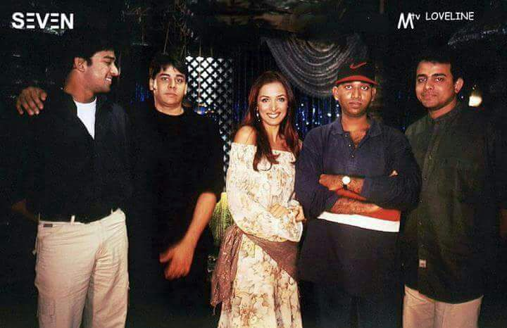 Franco Simon with Malaika Arora, Stephen Devassy for Seven Album promotion